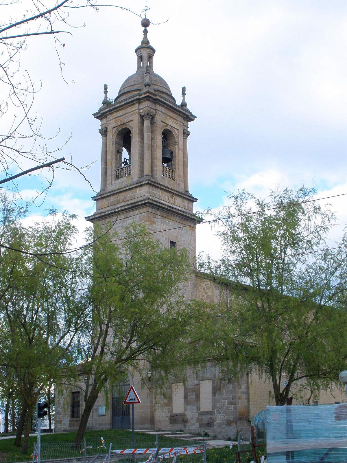 Iglesia de San Vicente de Arriaga (Vitoria-Gasteiz, País Vasco, España)